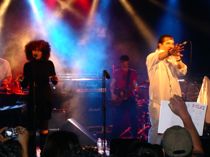 Peeping tom in Milan